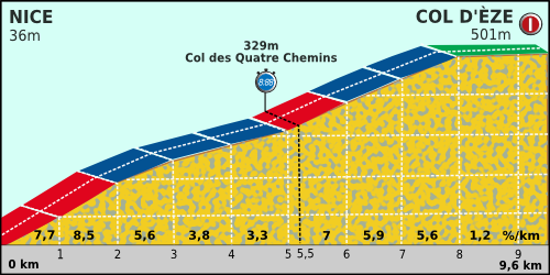 Paris-Nice 2012 Profile stage 8